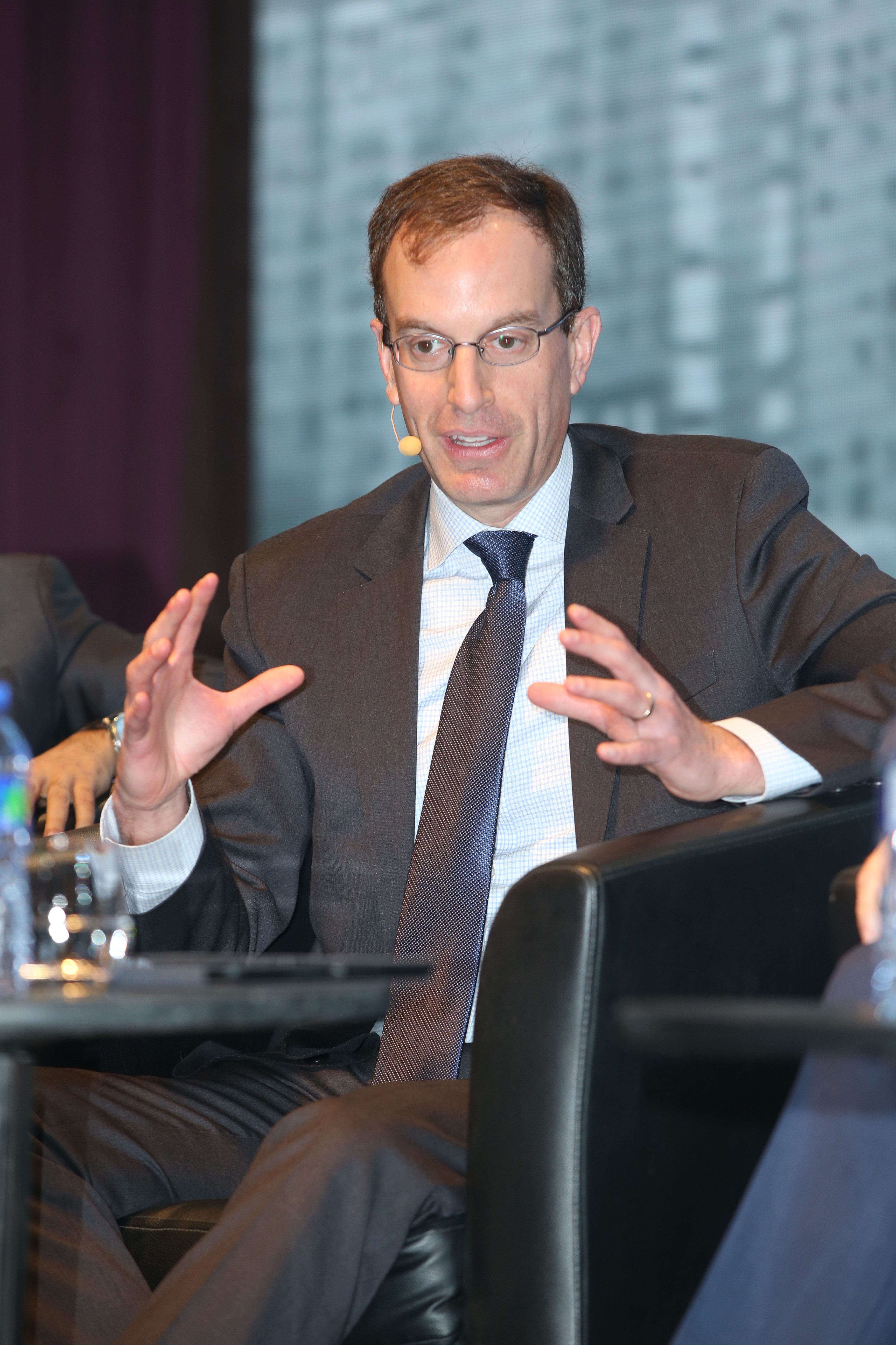 A picture of Ryan Craig at the Yidan Prize summit